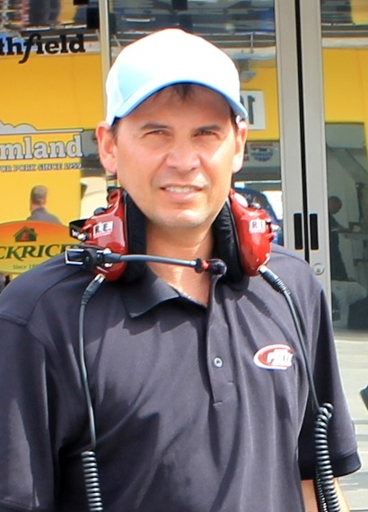 Trent Owens at Las Vegas Motor Speedway - March 2014